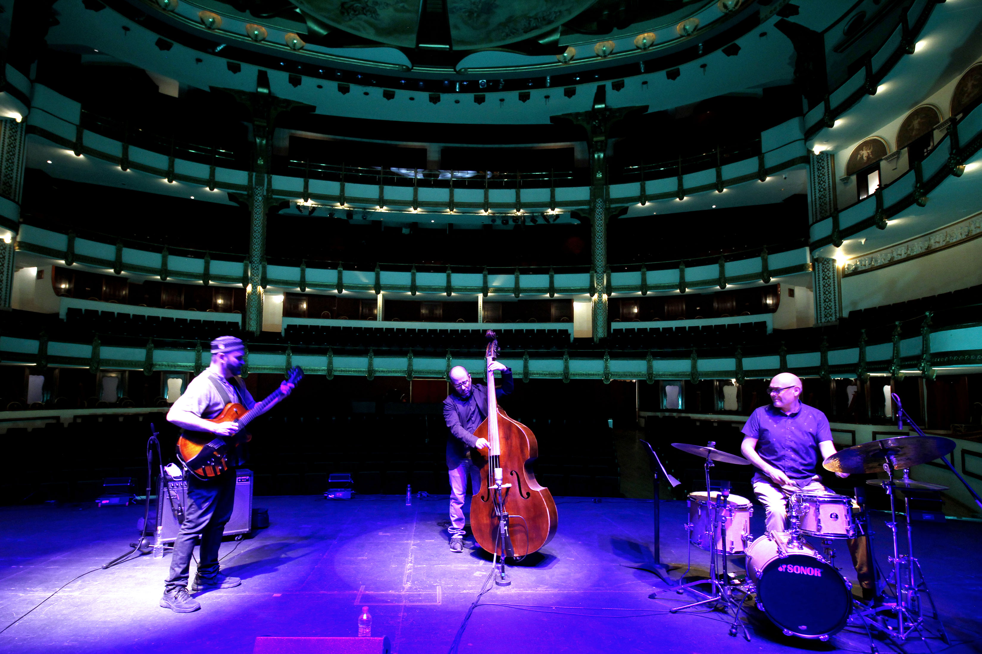 Israel Cupich trio performing for a broadcast concert to celebrate 2020 International Jazz Day in Mexico City as public performances are not currently allowed. Picture by Maritza Rios / Secretaria de Cultura de la Ciudad de Mexico.